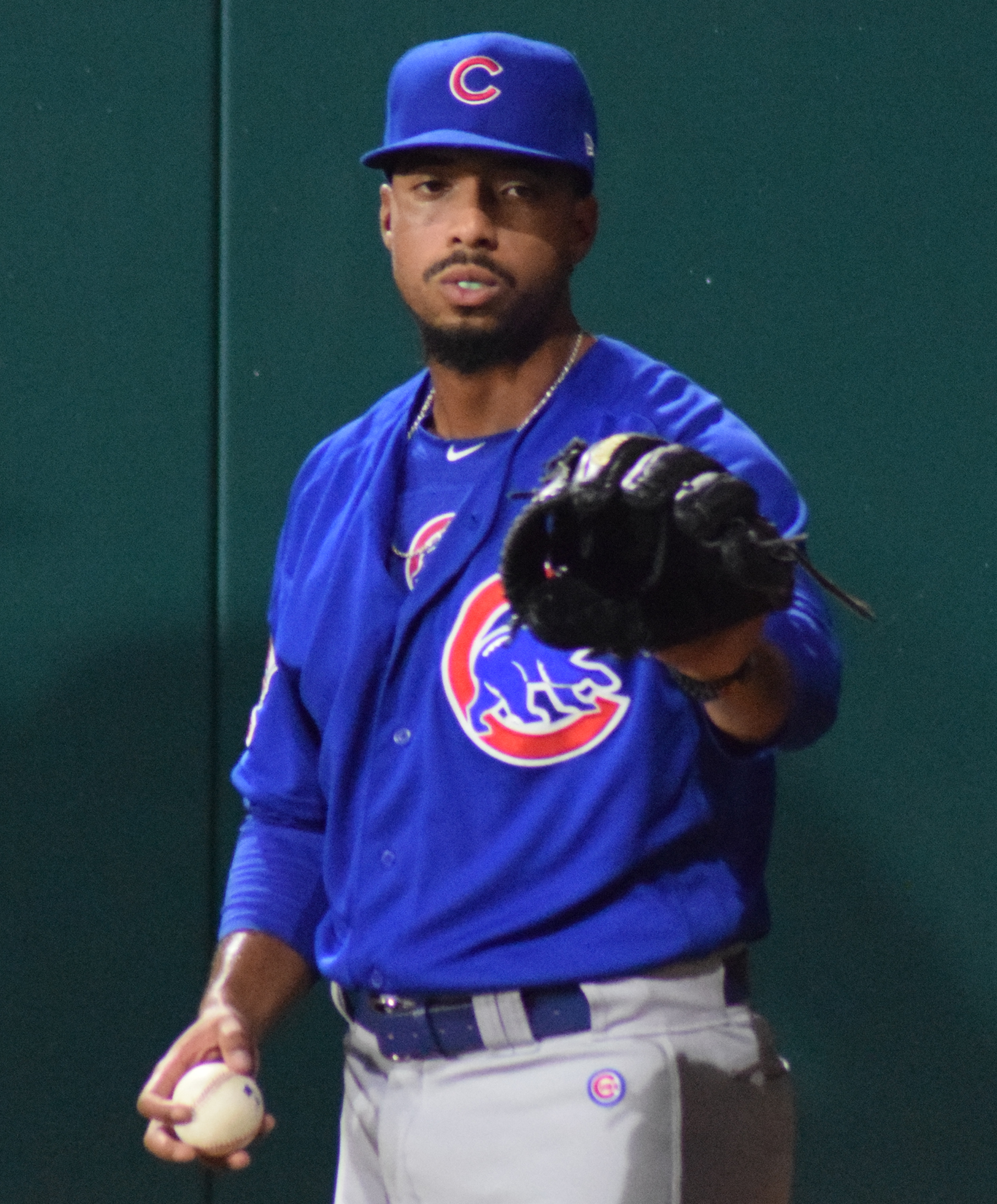 Duane Underwood with the Chicago Cubs in the bullpen during a 2019 game at Citizens Bank Park.